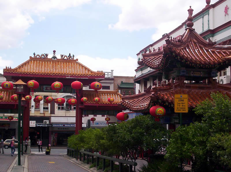 Photo of Chinatown, Brisbane.